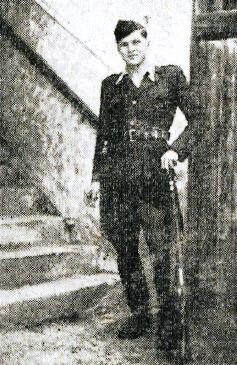 Martin Južna-Tine (1919-1943), Slovene partisan